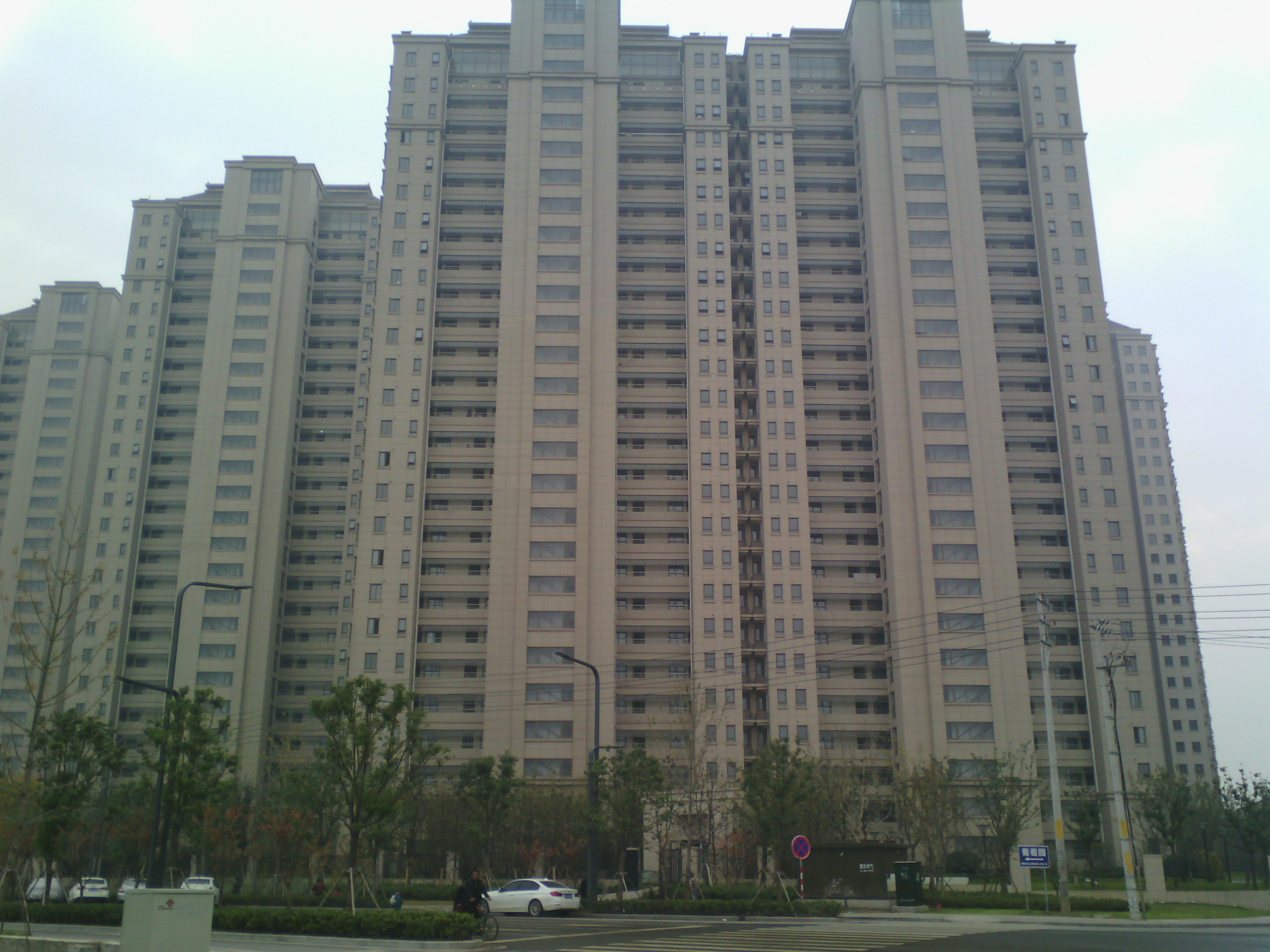 New City in Jiangxinzhou